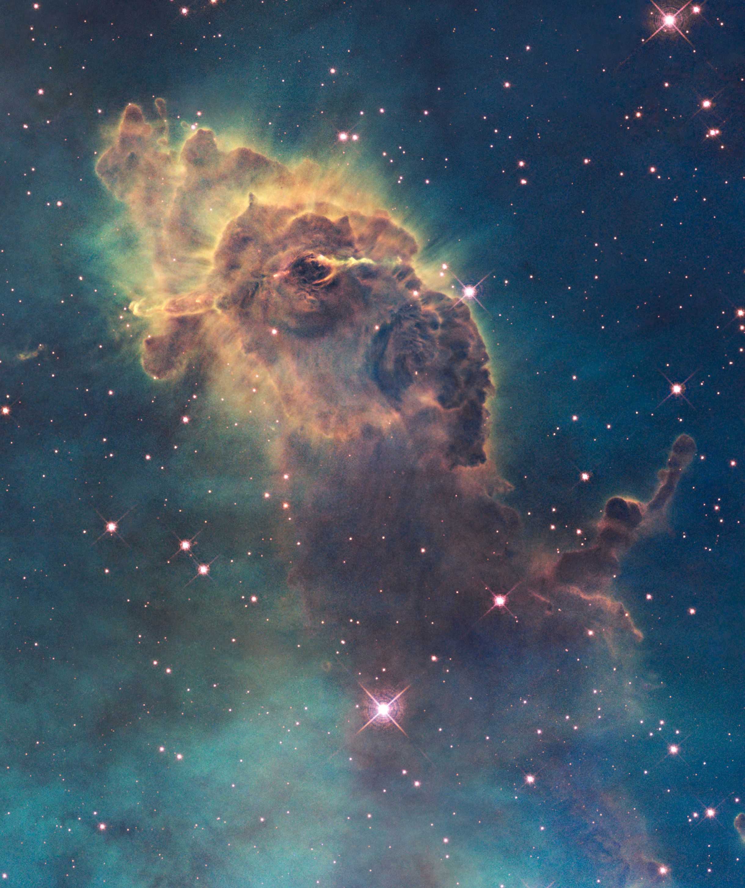 Composed of gas and dust, the pictured pillar resides in a tempestuous stellar nursery called the Carina Nebula, located 7500 light-years away in the southern constellation of Carina. Taken in visible light, the image shows the tip of the three-light-year-long pillar, bathed in the glow of light from hot, massive stars off the top of the image. Scorching radiation and fast winds (streams of charged particles) from these stars are sculpting the pillar and causing new stars to form within it. Streamers of gas and dust can be seen flowing off the top of the structure. Hubble's Wide Field Camera 3 observed the Carina Nebula on 24-30 July 2009. The composite image was made from filters that isolate emission from iron, magnesium, oxygen, hydrogen and sulphur.